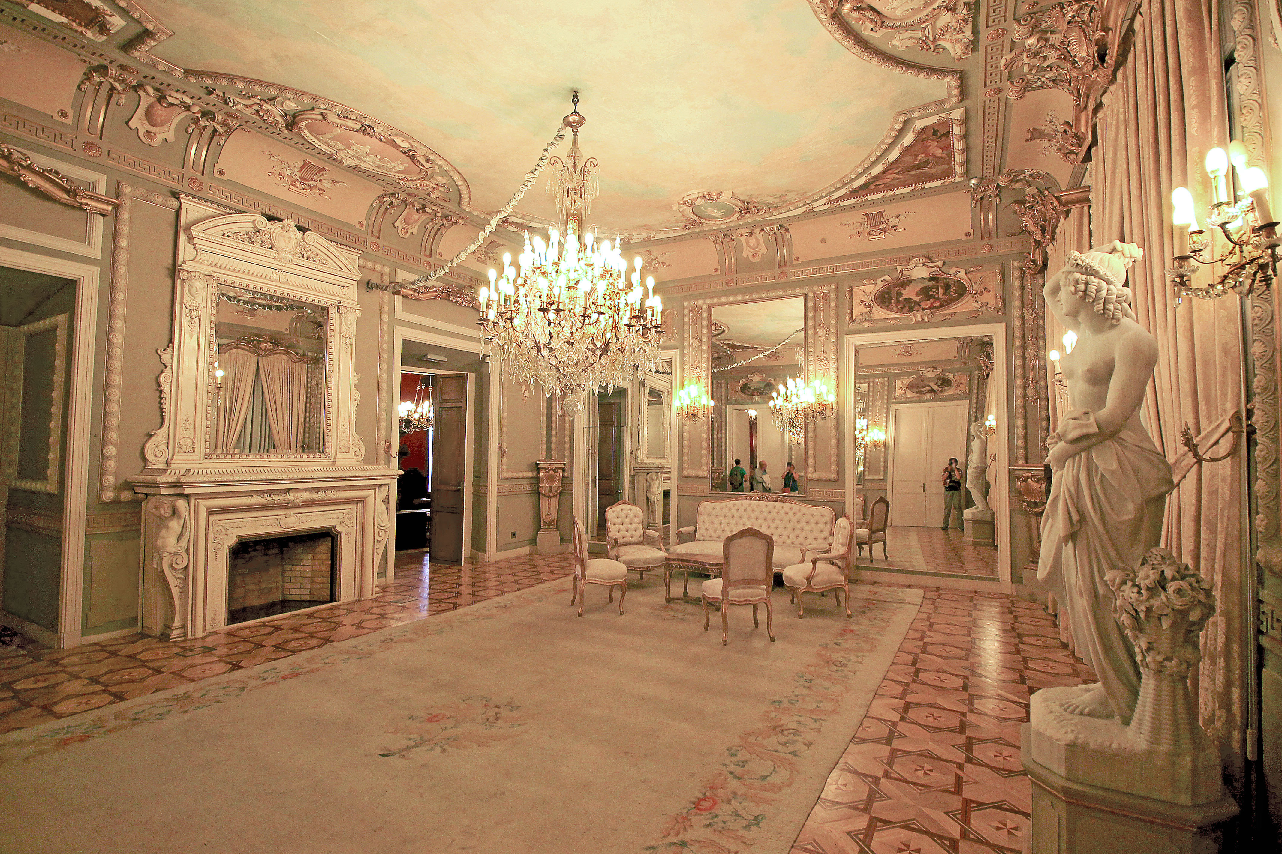 The ballroom of the former mansion of the marquis of Villafranca in Madrid (Spain). Designed by Arturo Mélida in the 1870s.